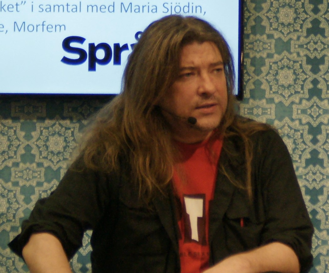 Cropped version of the photo Mikael Parkvall & Maria Sjödin.jpg where Swedish linguist and author Mikael Parkvall together with Maria Sjödin, publisher, at Göteborg Book Fair 2016.